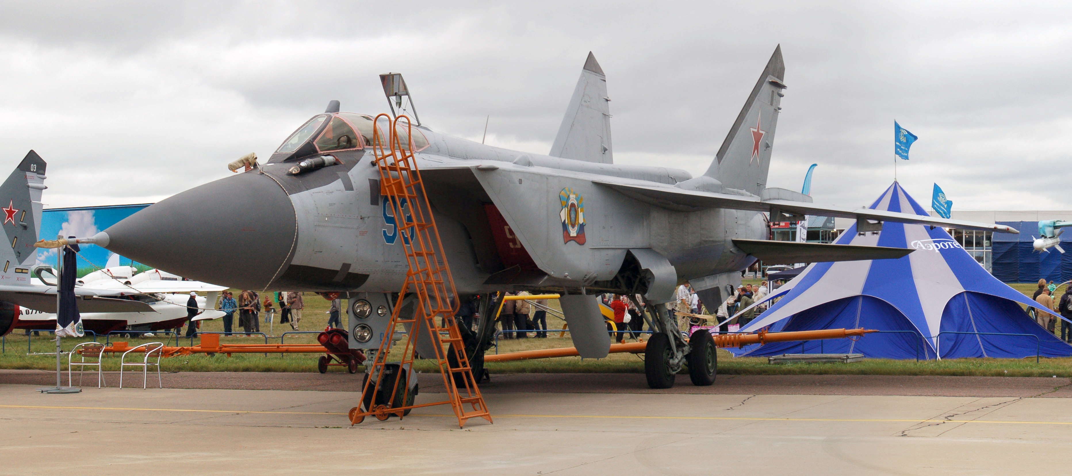 MIG-31BM on MAKS-2009